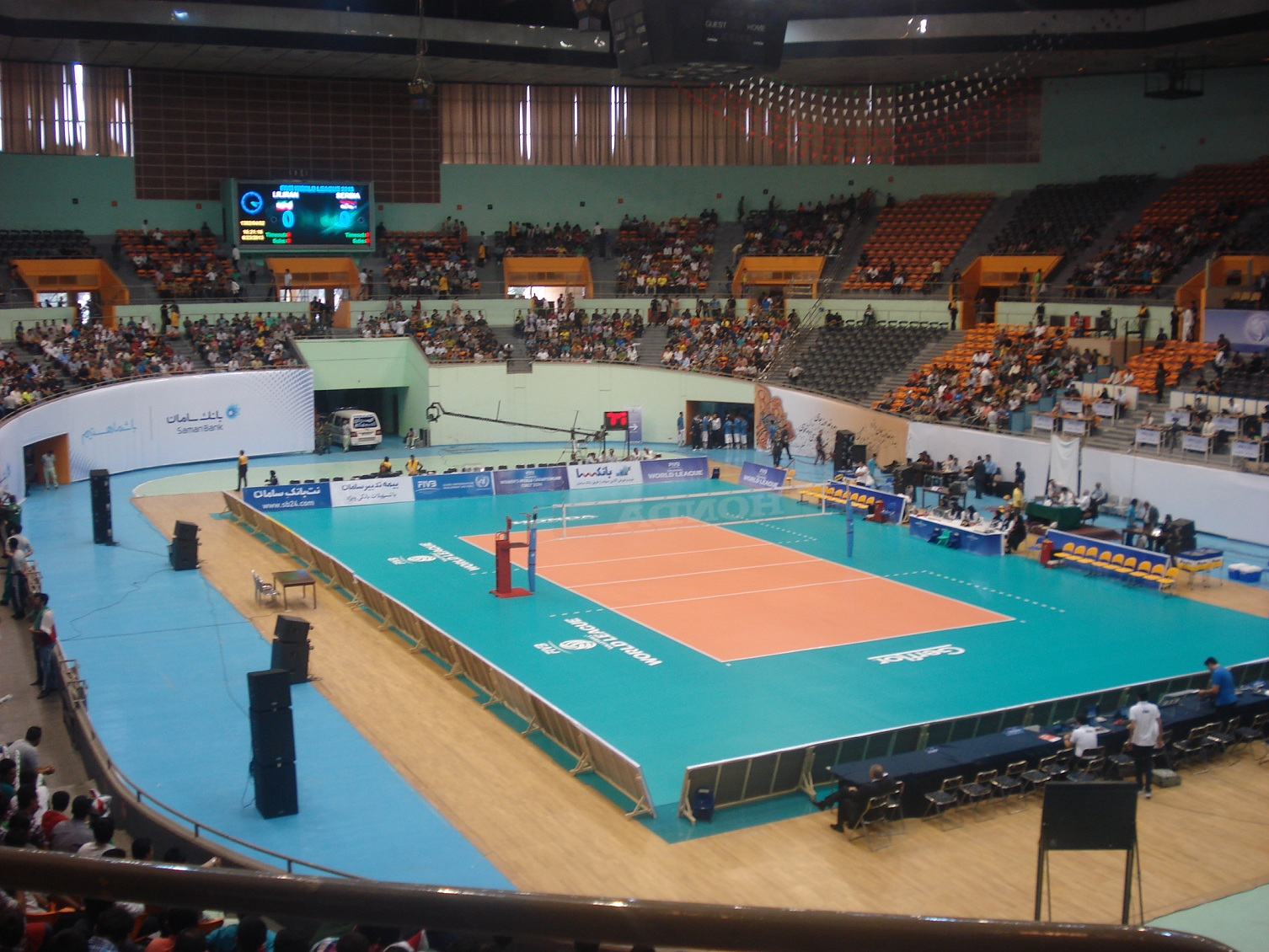 Azadi Indoor (Volleyball) Stadium, Iran-Serbia match, 2013 World League First Round